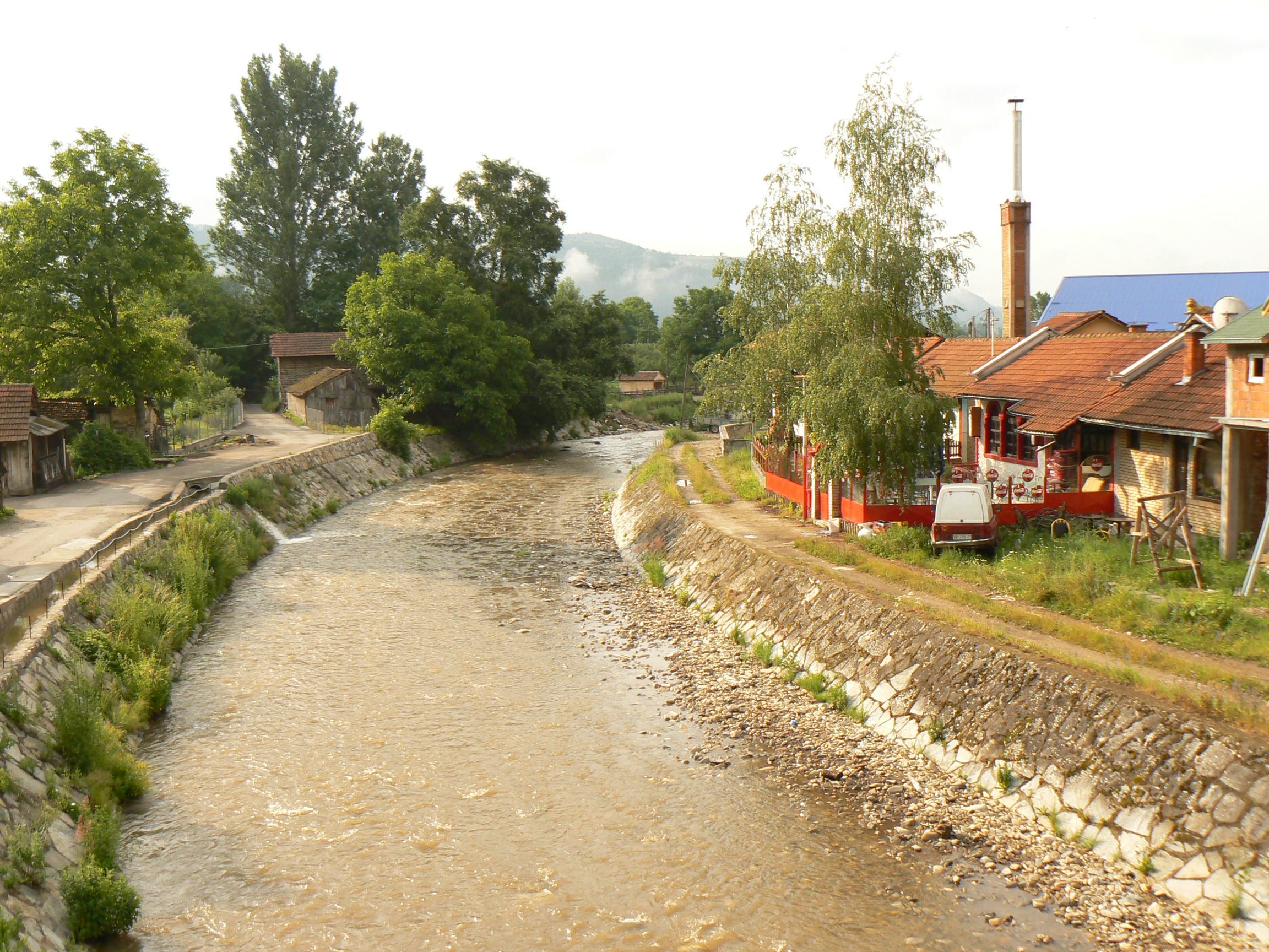 Bozhiska river, flowing through the centre of Bosilegrad